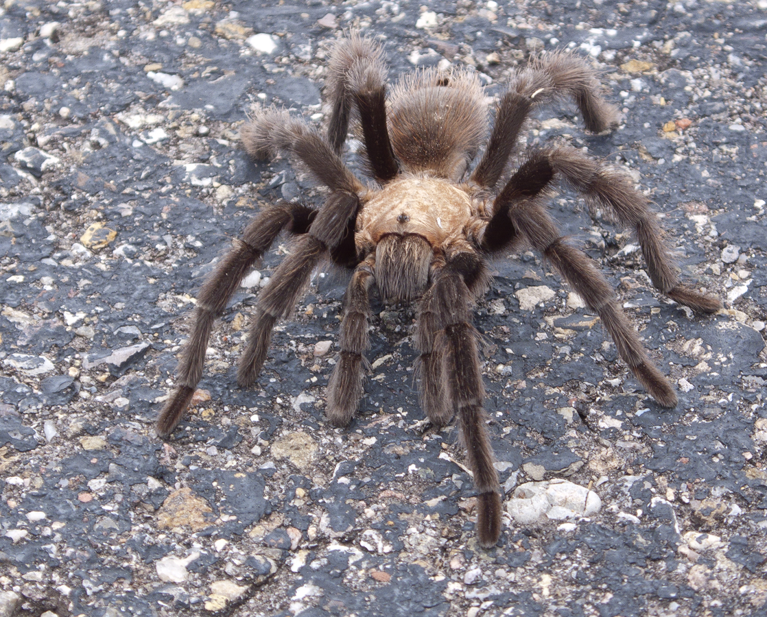 Found this creature in the driveway. Have seen them on the side of the house, in the road, and just about everywhere except inside the house. This time of year they seem to be migrating. EDIT: Actually did find one in the garage the other day.